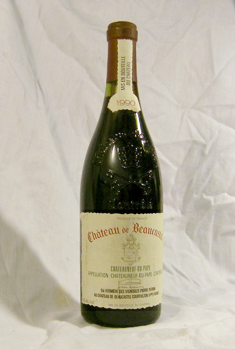 Bottle of Chateau Beaucastel Châteauneuf-du-Pape DOC